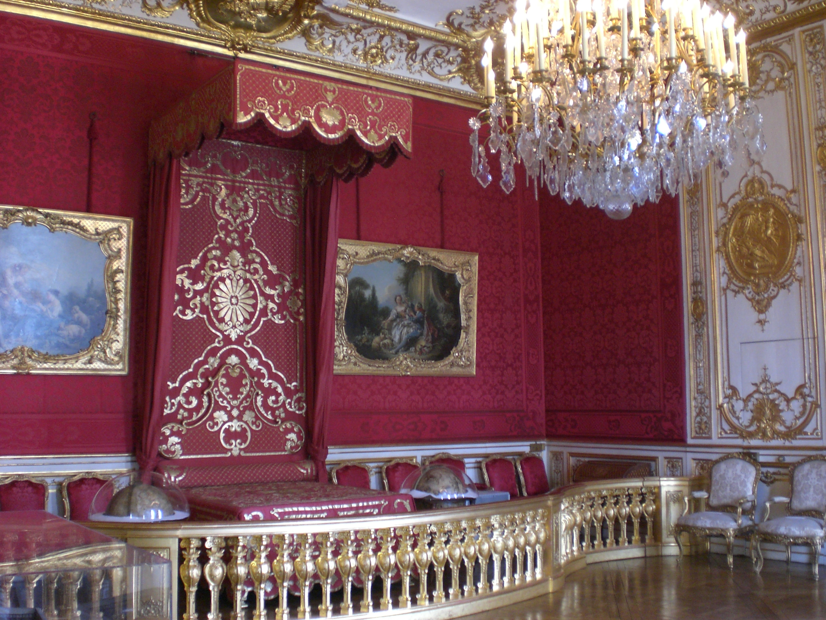 Paris, Hôtel de Soubise, Princess of Soubise Chamber